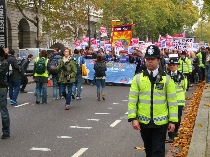 London - Jarrow March 2011. The Jarrow march for jobs in November 2011 passes down the Embankment.